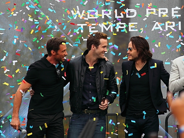 From left to right on stage: Hugh Jackman, Ryan Reynolds and Taylor Kitsch at the X-Men Origins: Wolverine premiere in Tempe, Arizona.